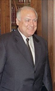 Viktor Chernomyrdin, a Russian politician.